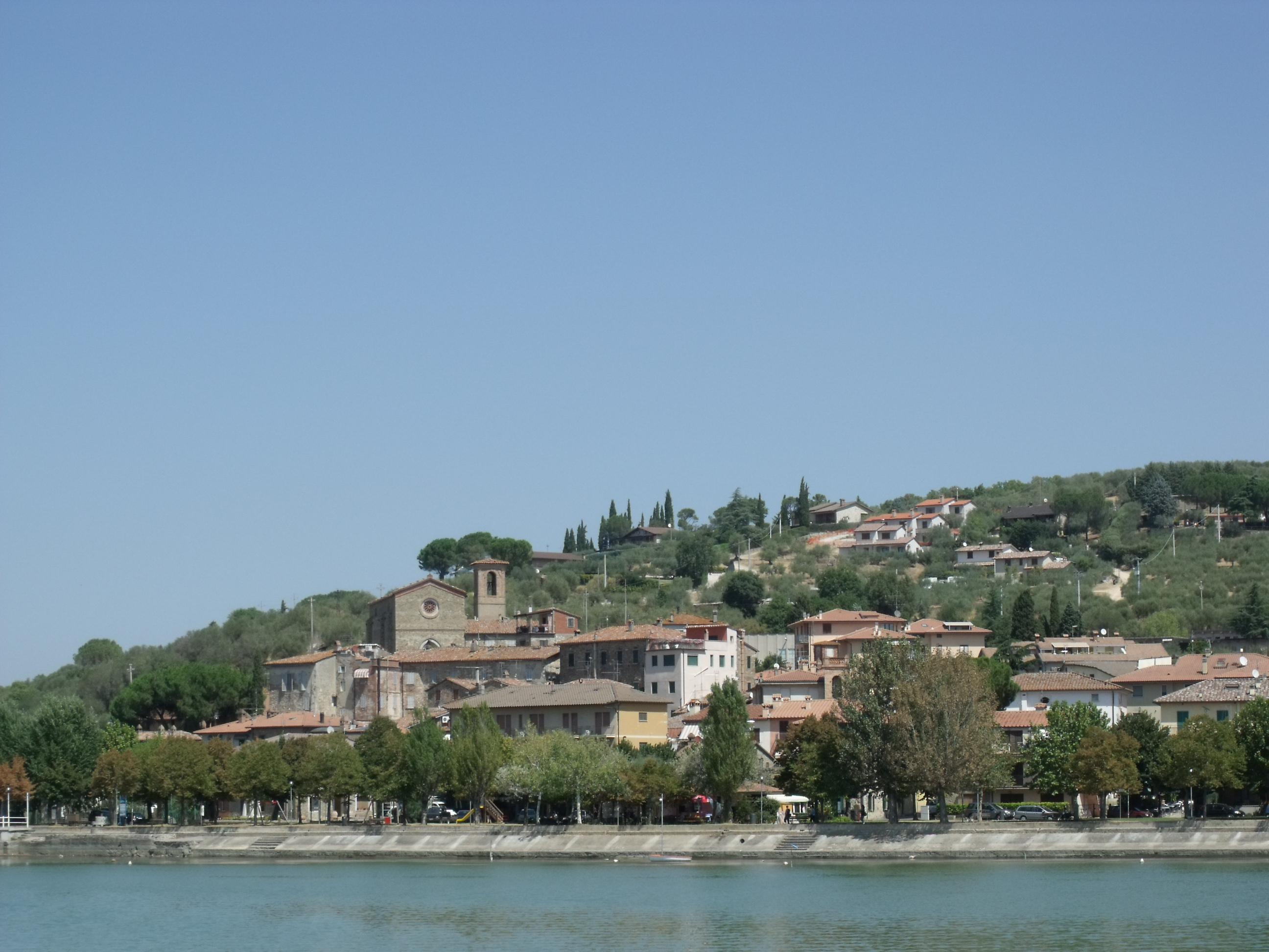 Panorama of San Feliciano, hamlet of Magione, Lake Trasimeno, Province of Perugia, Umbria, Italy